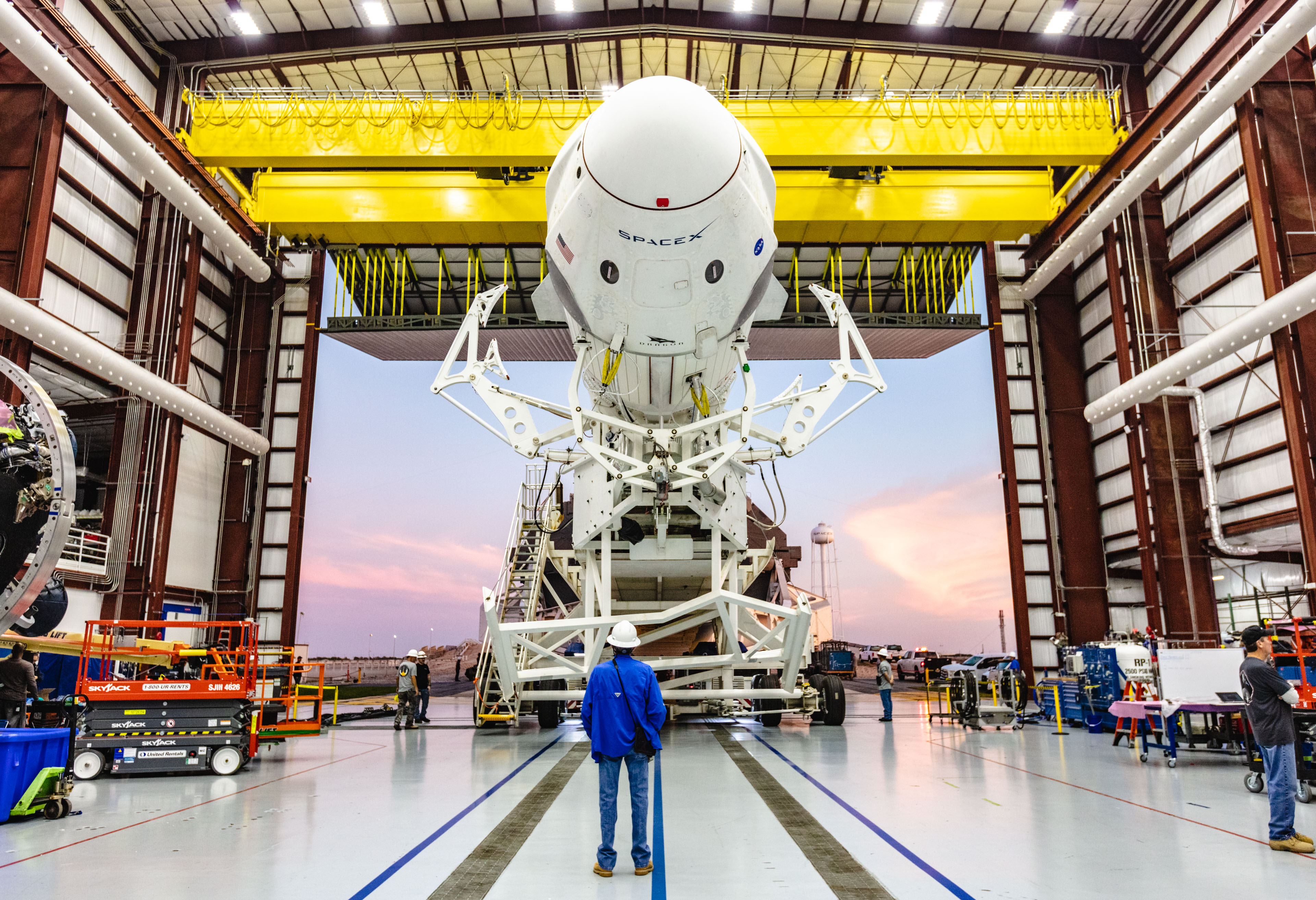 Falcon 9 launch vehicle and Dragon 2 spacecraft roll out of the hangar at Kennedy Space Center LC-39A for tests prior to the DM-1 demo launch.